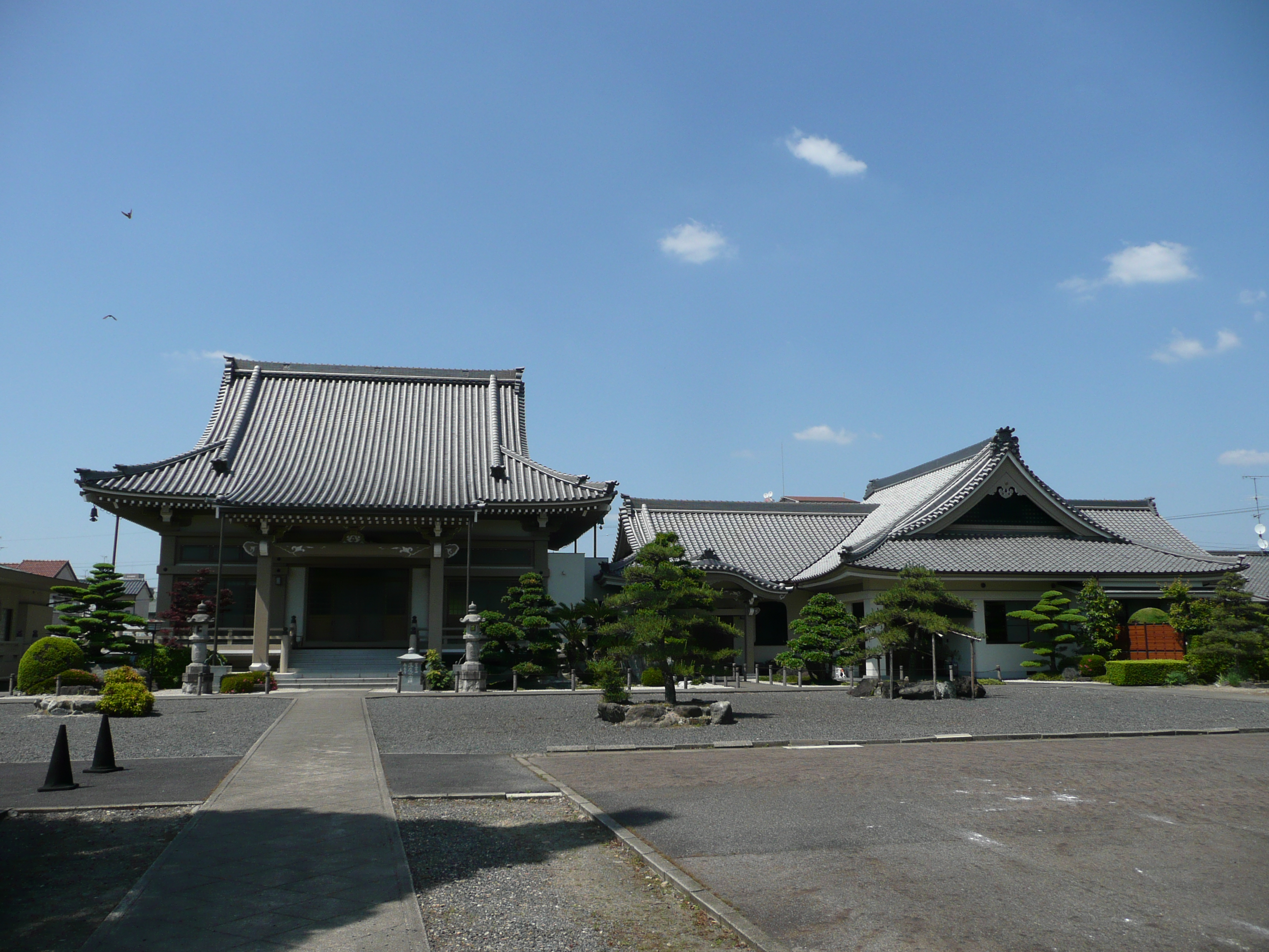 泰岳寺の本堂